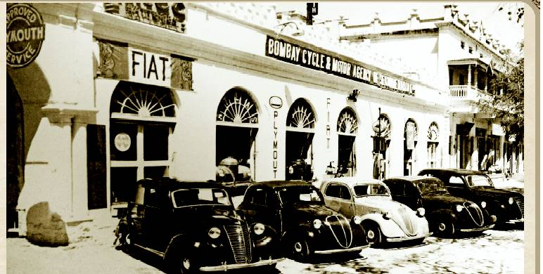 A picture of the first automobile showroom in Secunderabad